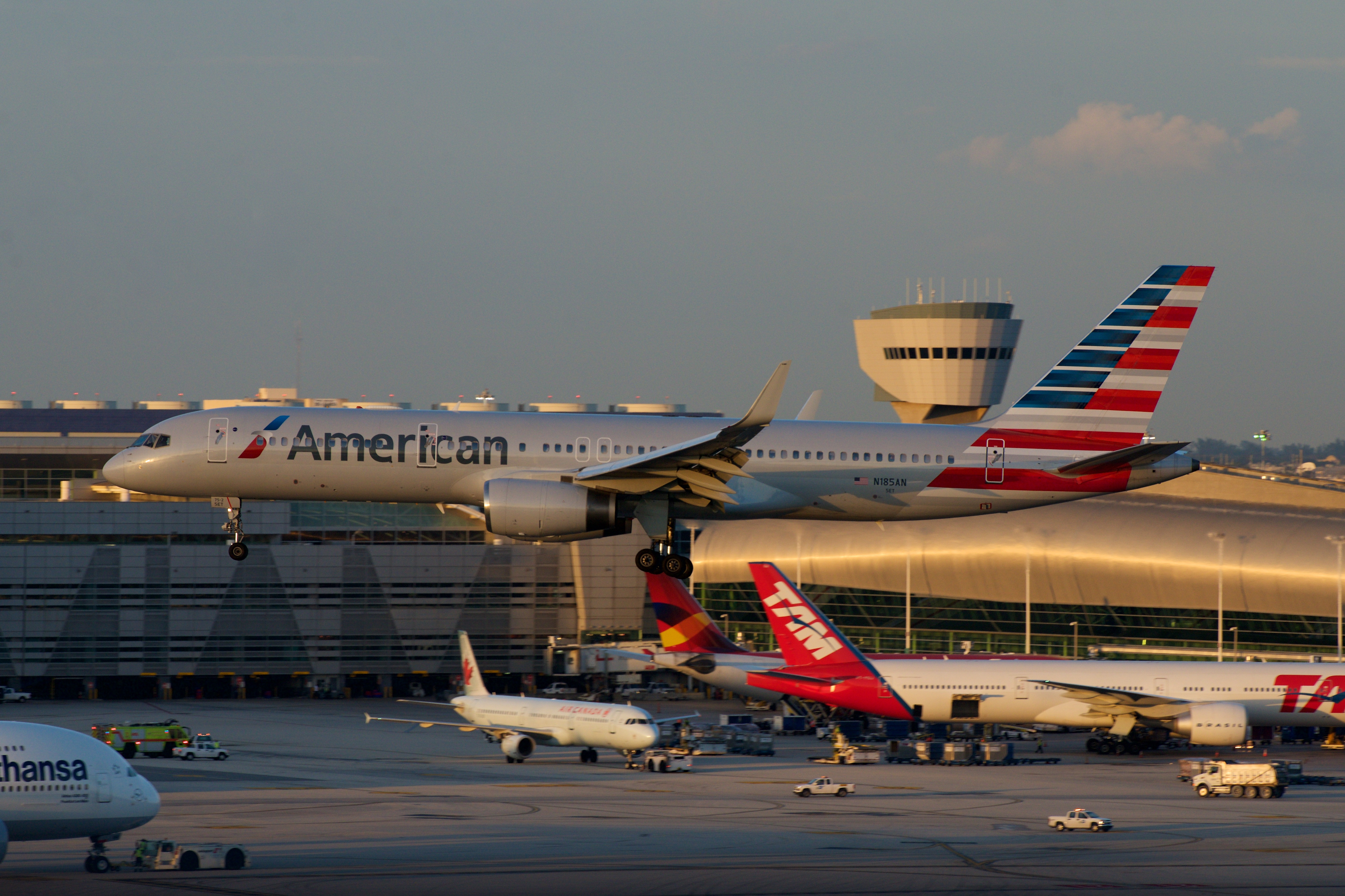 Highlight of the day (for me). American 757 in new colours!